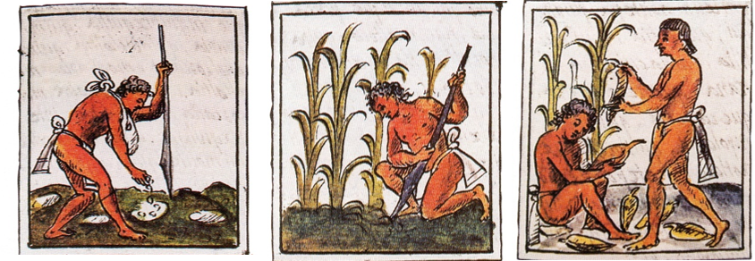 Aztec corn agriculture